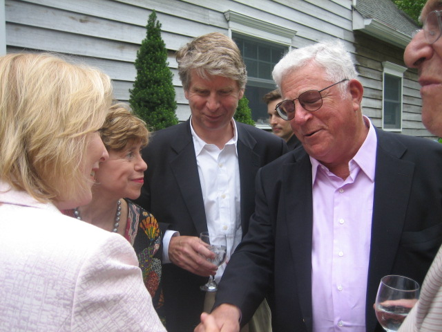 Cy with Lt. Governor Richard Ravitch and Senator Kirsten Gillibrand at the Star Jones Fundraiser for Governor Paterson